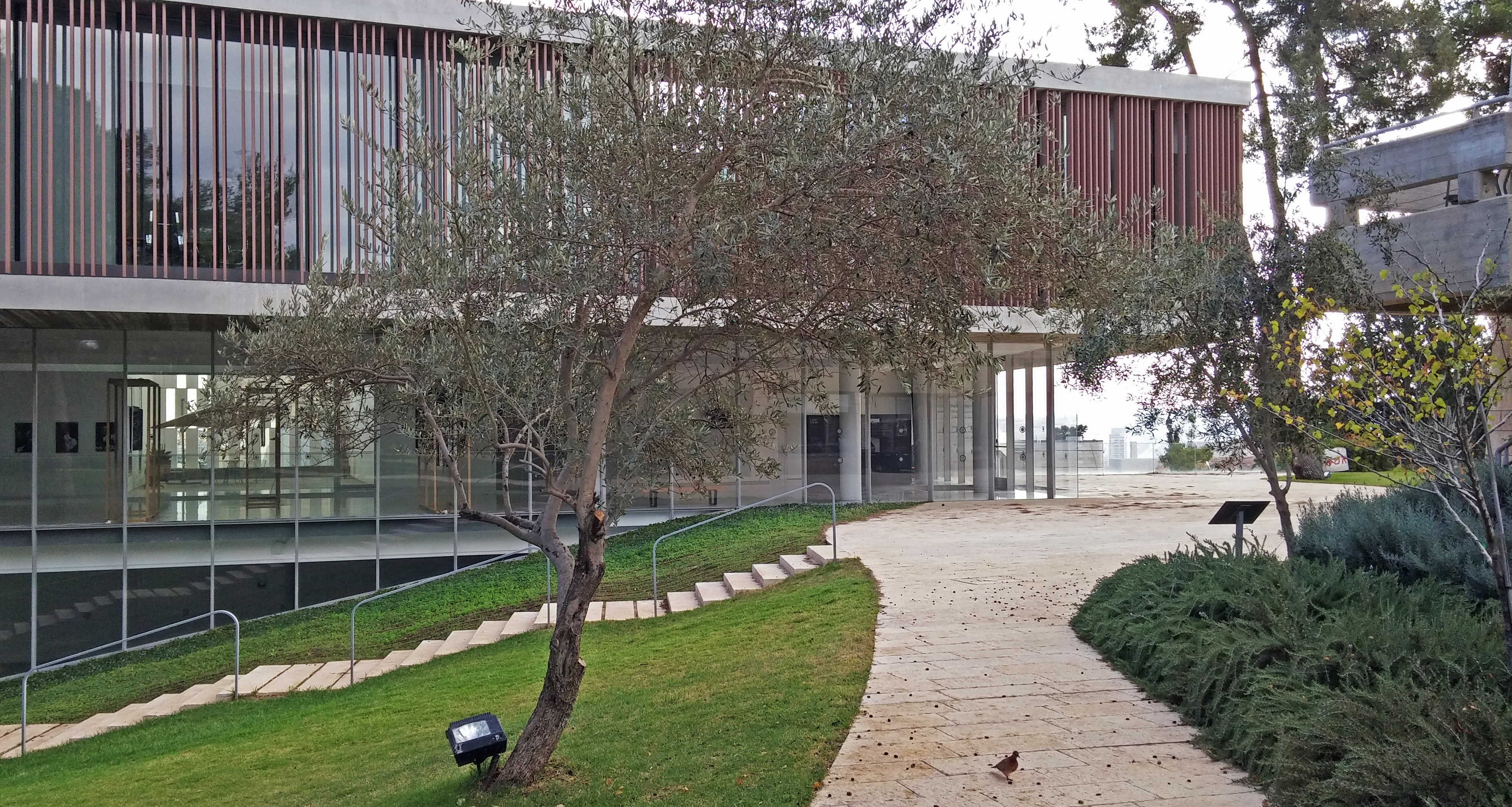 Van Leer Institute in Jerusalem